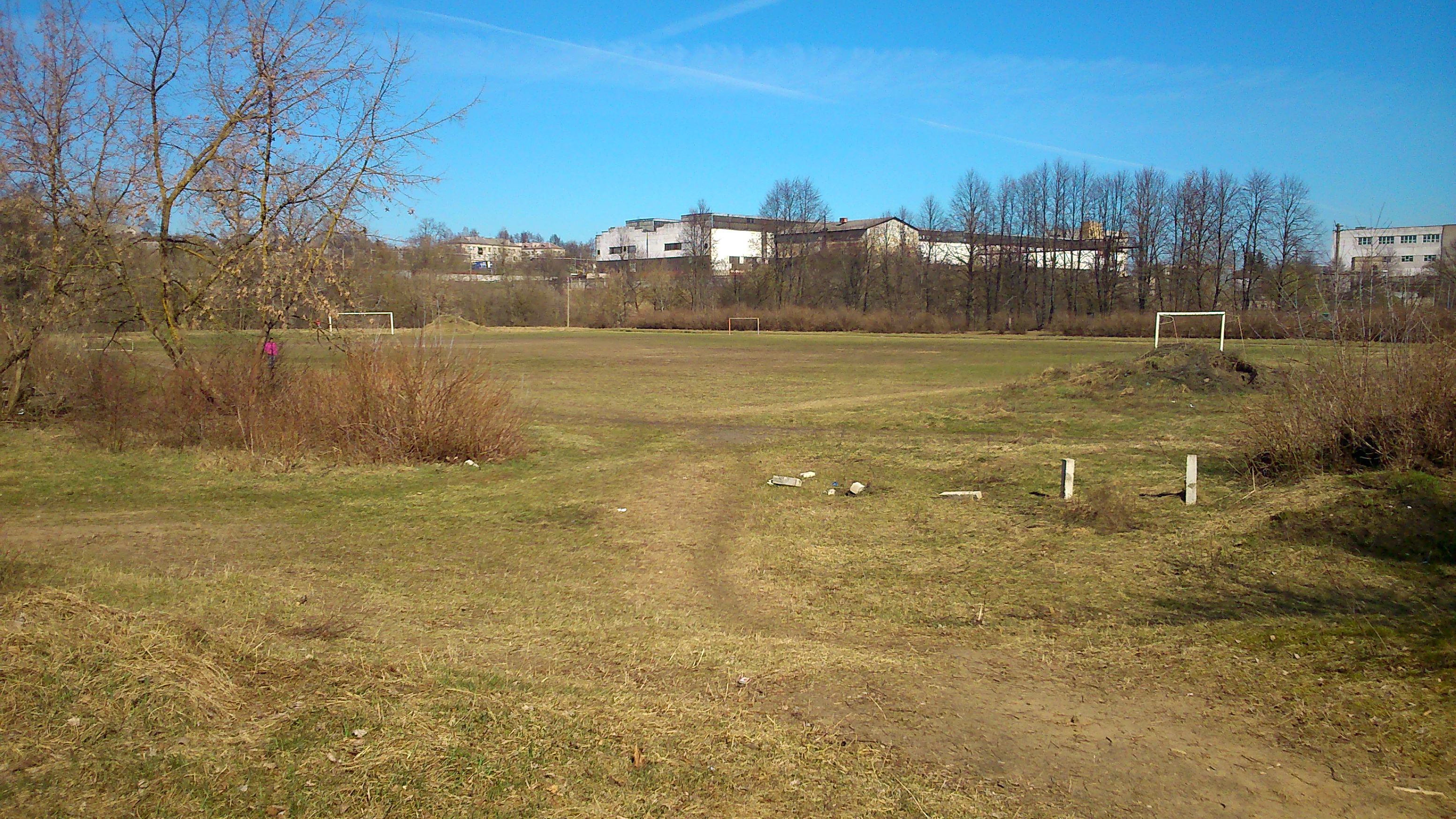 Naujoji Vilnia Park